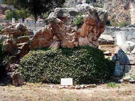 The rock from which the Erythraean Sibyl or Herophile foretold the future